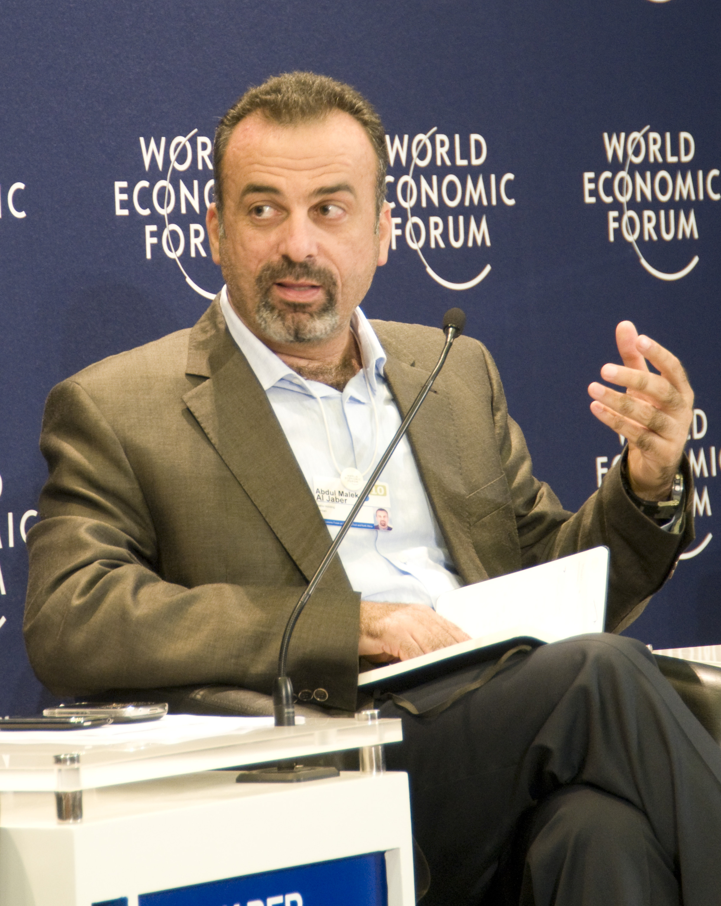 MARRAKECH/MOROCCO, 25OCT10 - Abdul Malek Al Jaber - Education Summit Plenary- World Economic Forum on the Middle East and North Africa Marrakech, Morocco, 25 October 2010. Copyright World Economic Forum ( by John Cole/still